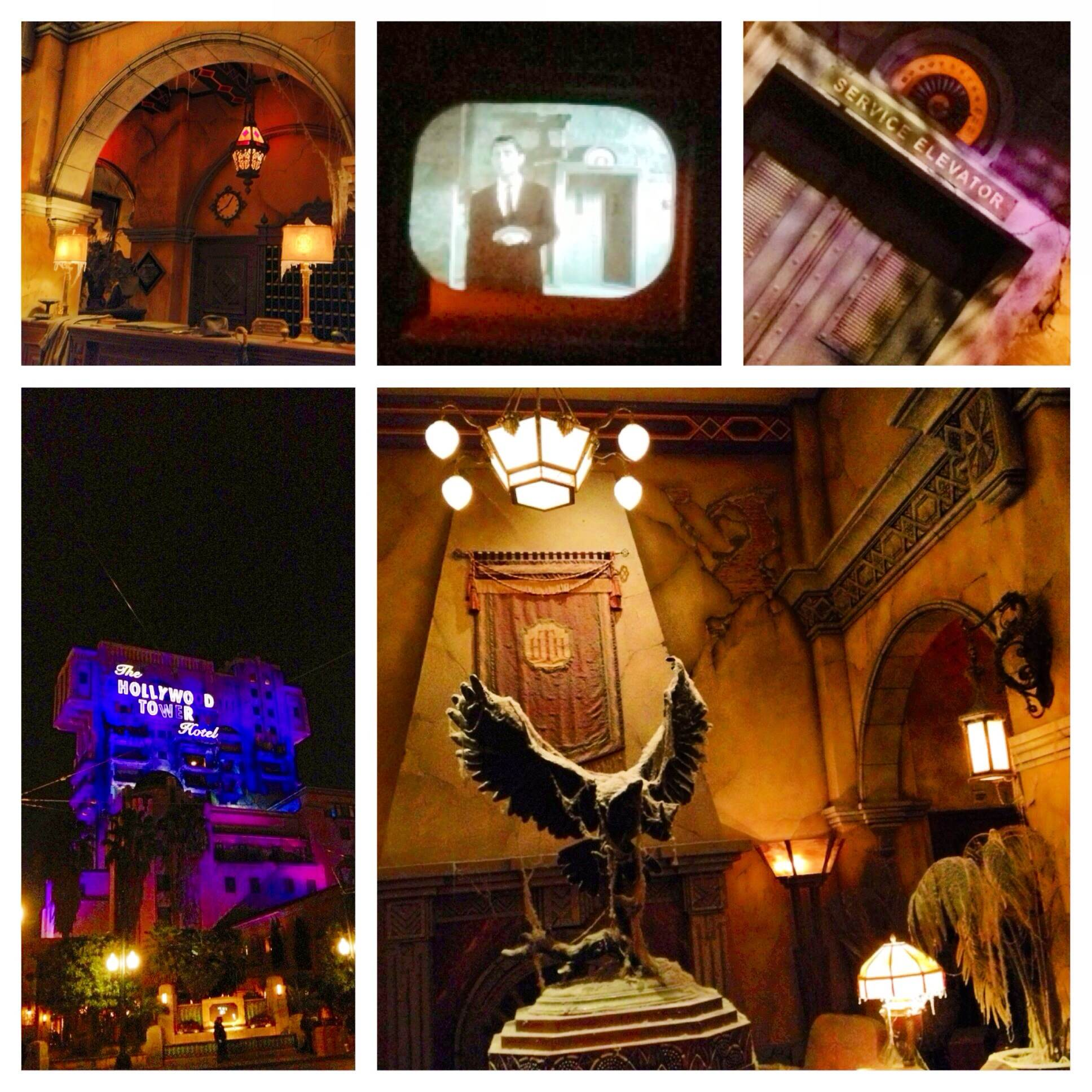 A collage of the sights seen at The Twilight Zone Tower of Terror at Disney California Adventure Park.